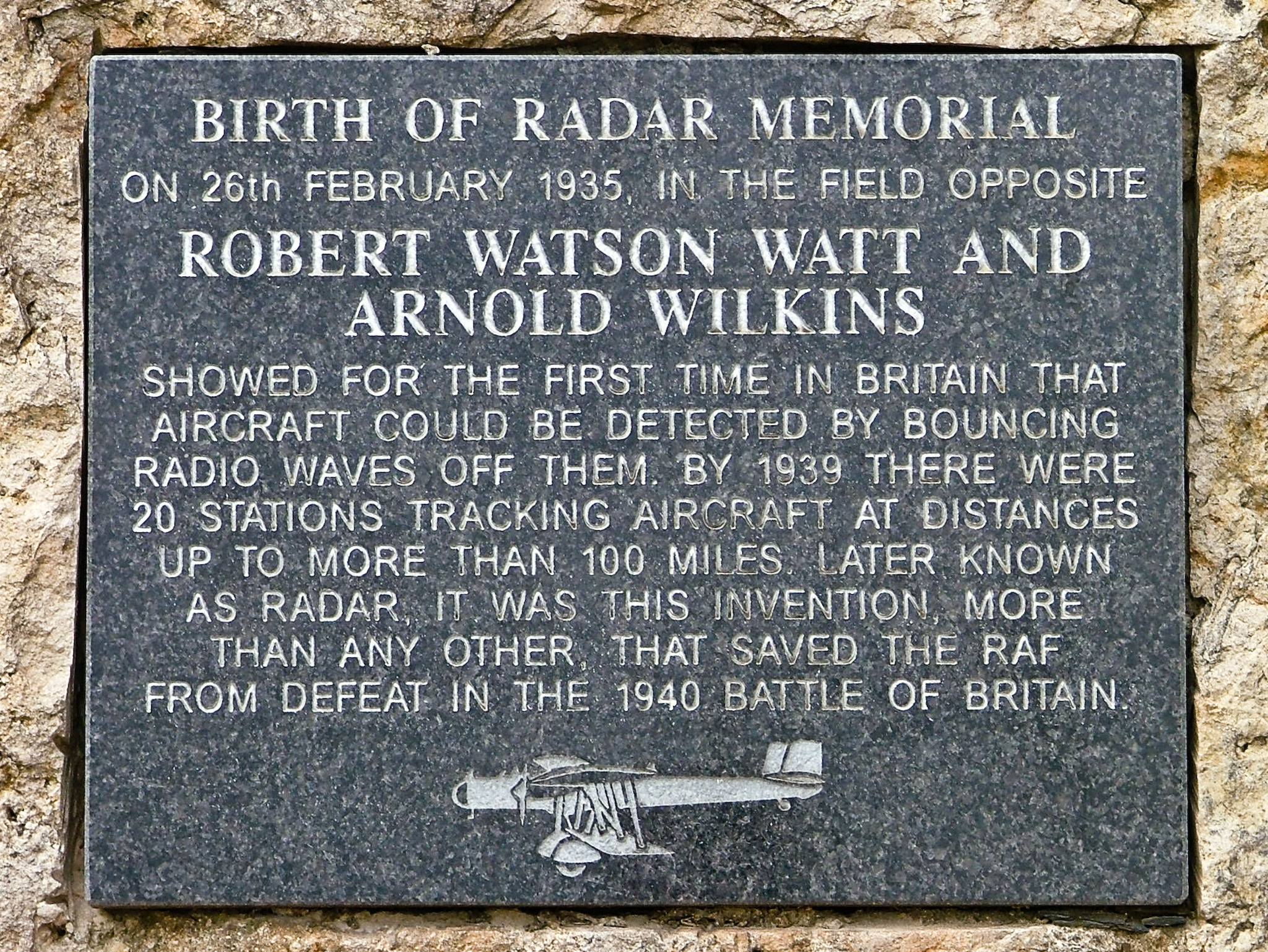 Memorial plaque at site of first successful RADAR experiments, 26-2-1935. Location: Lat 52.195982° Lon -1.050121° near Daventry, Northamptonshire.